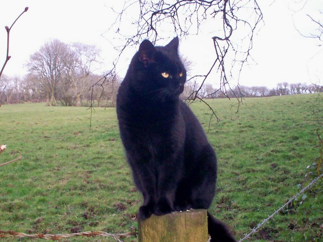 Black Cat for Luck - Mountain Park, Llanteg